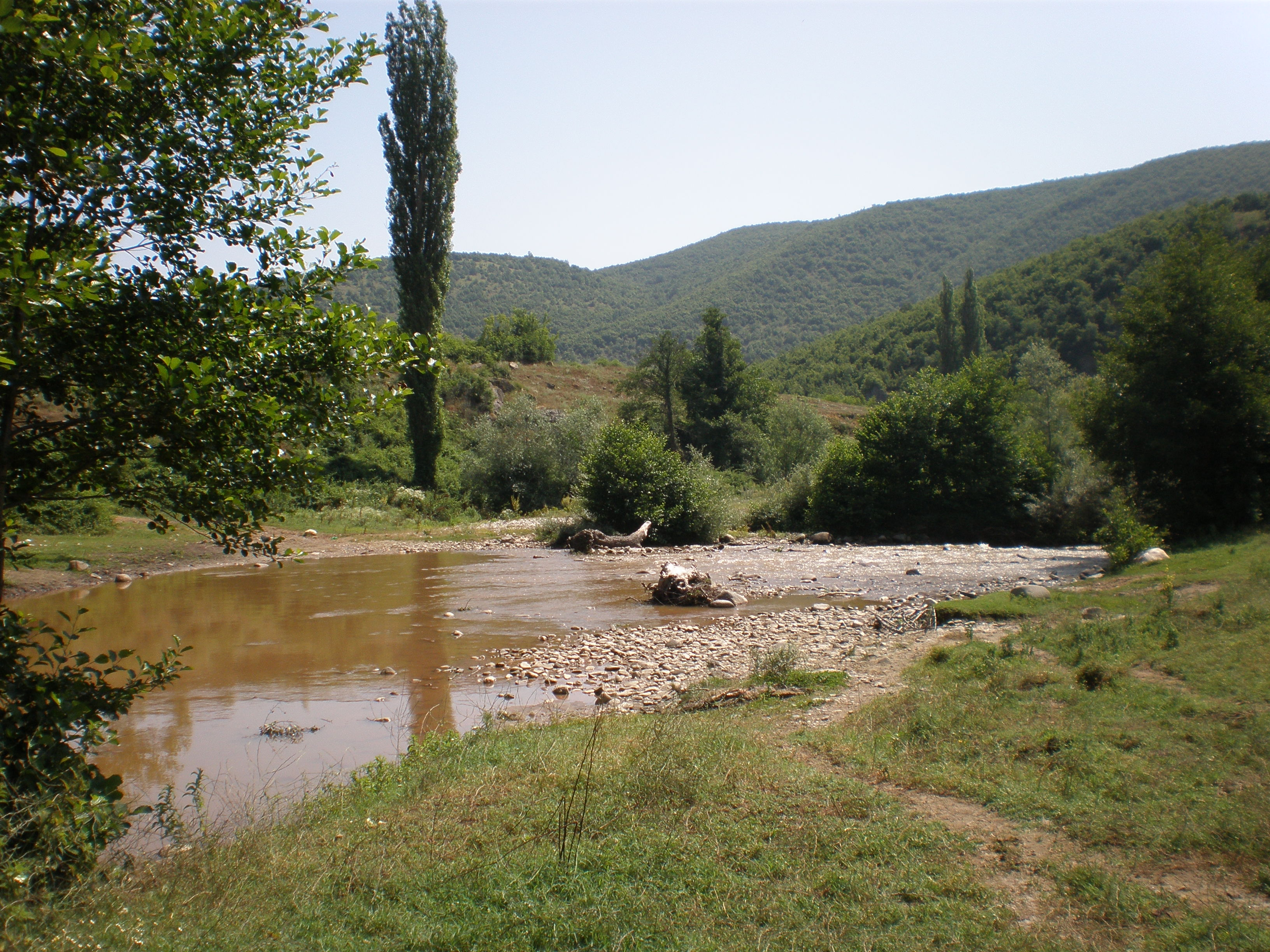 River Kadina, near the village of Smesnica, Macedonia